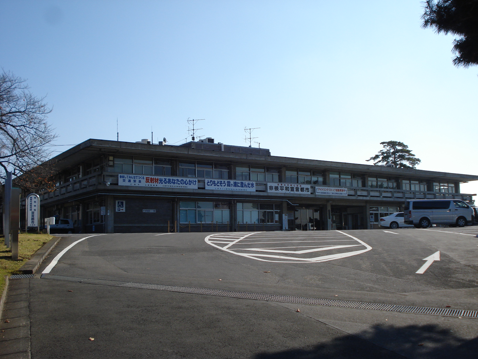 Tsuchiura City Hall Main Building